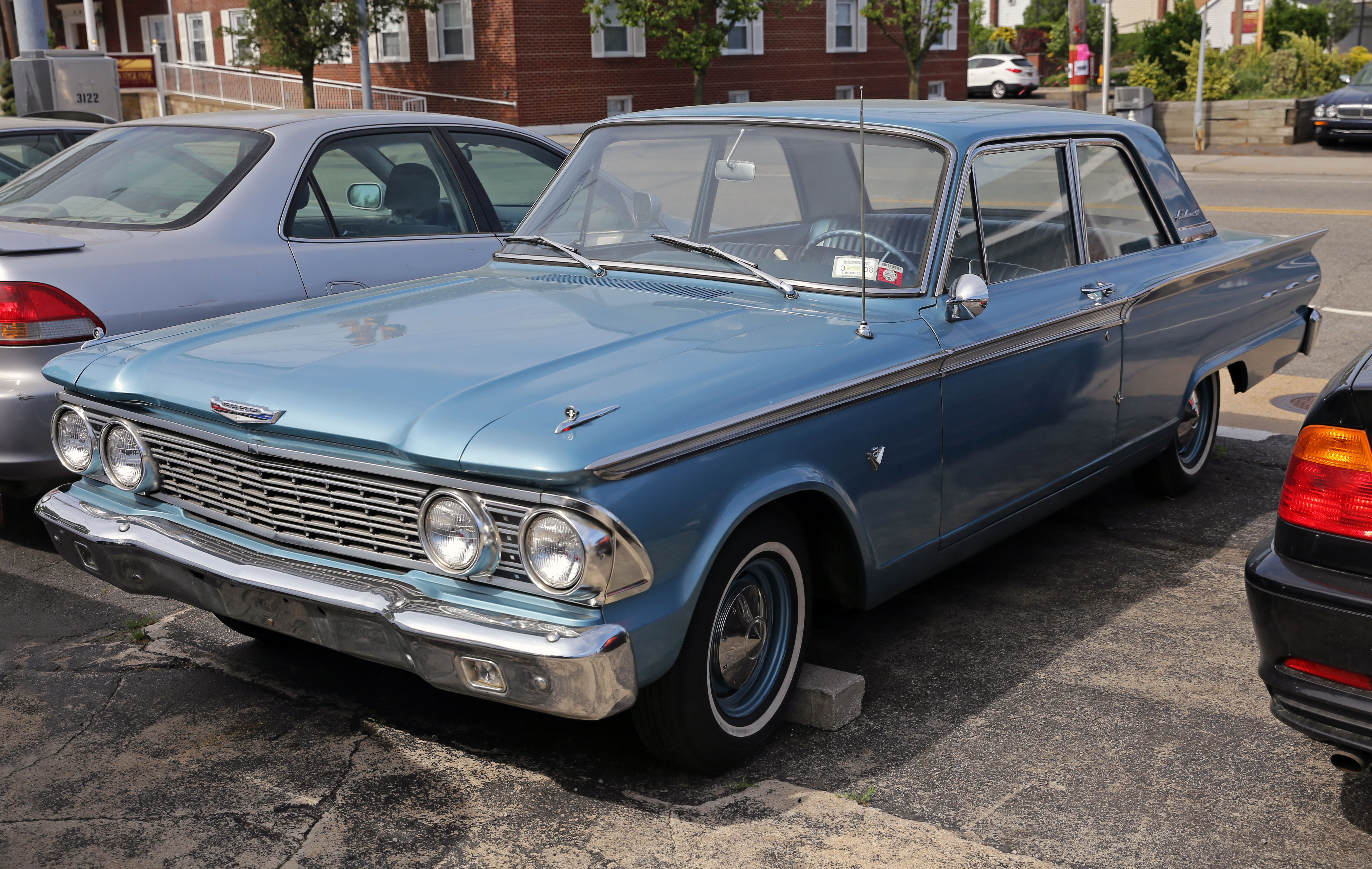 A 1962 Ford Fairlane 500 2-door Club Sedan, with the short-lived 221 Windsor V8 engine and assembled in Dearborn, MI.